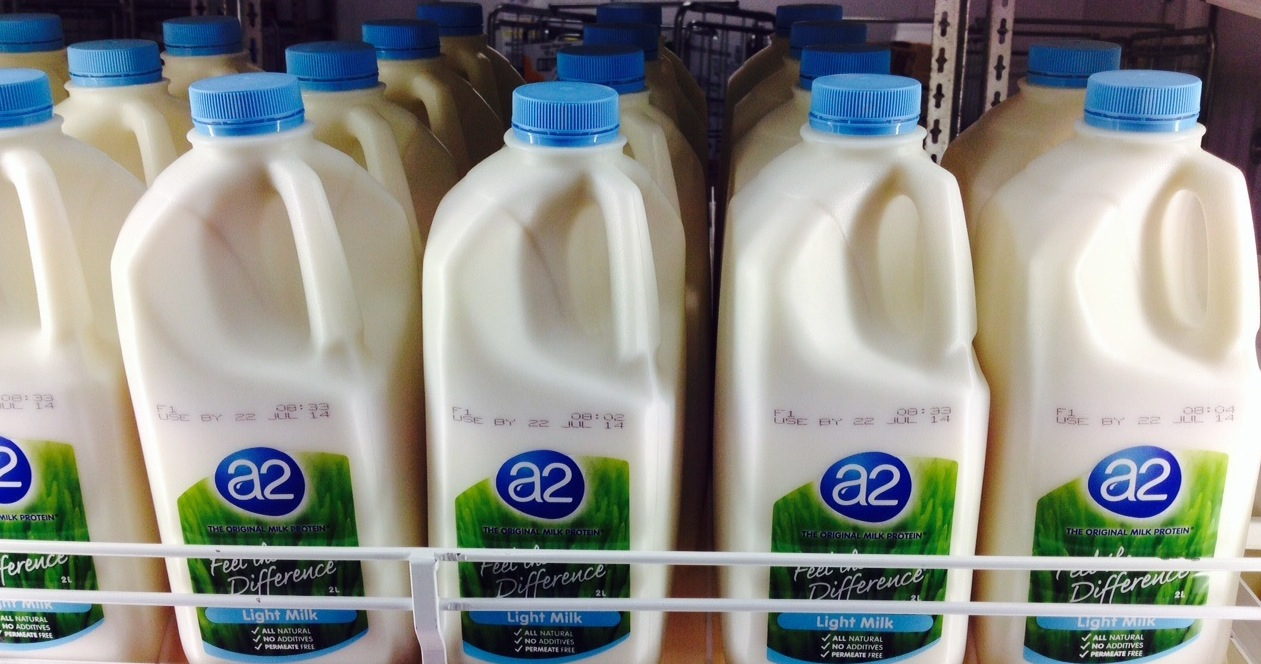 A2 brand milk in a supermarket fridge